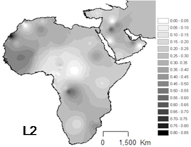 Interpolation maps for L2 haplogroup in the sub-Saharan pool observed in each sample.